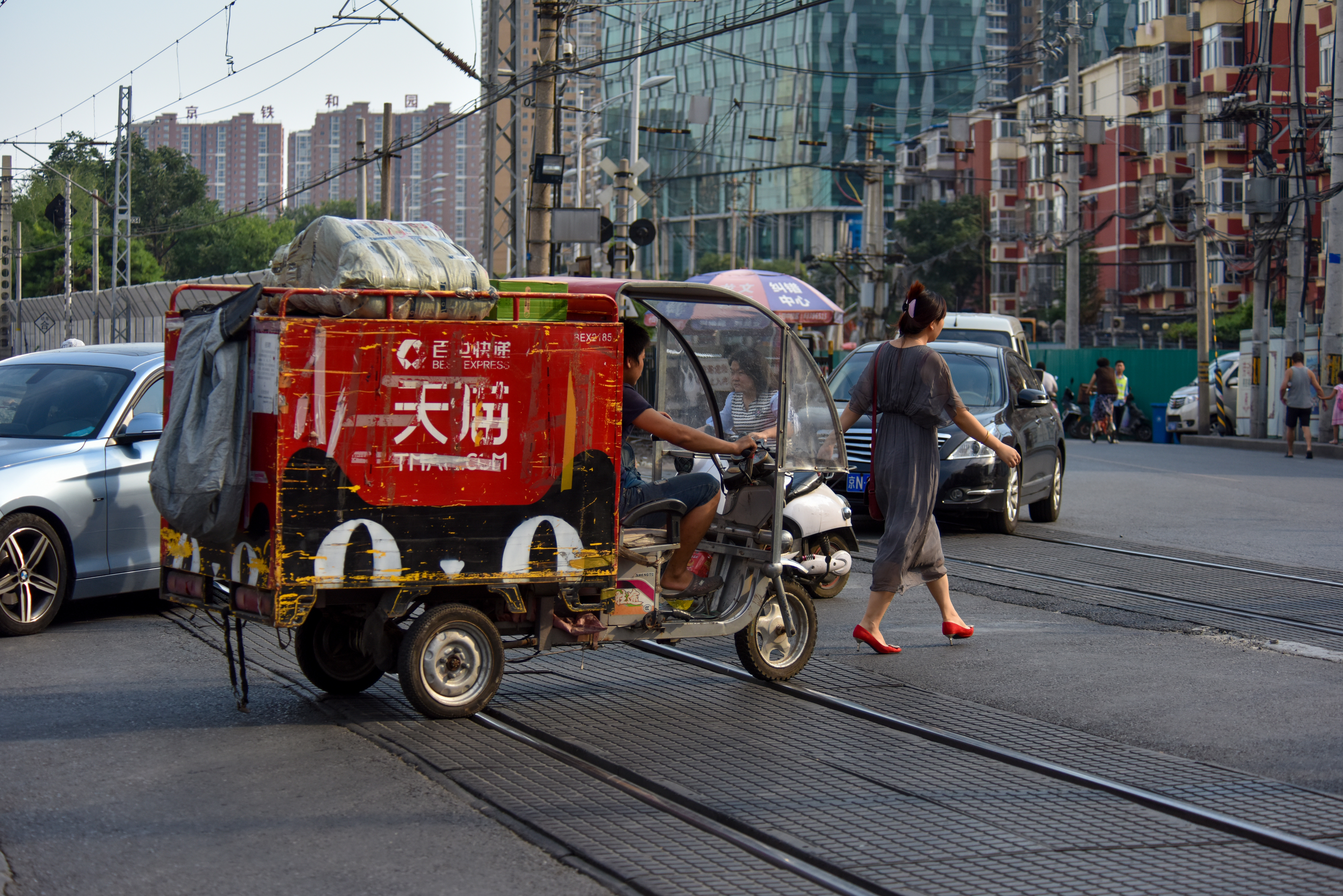 No one knows when the end of this level crossing would be.